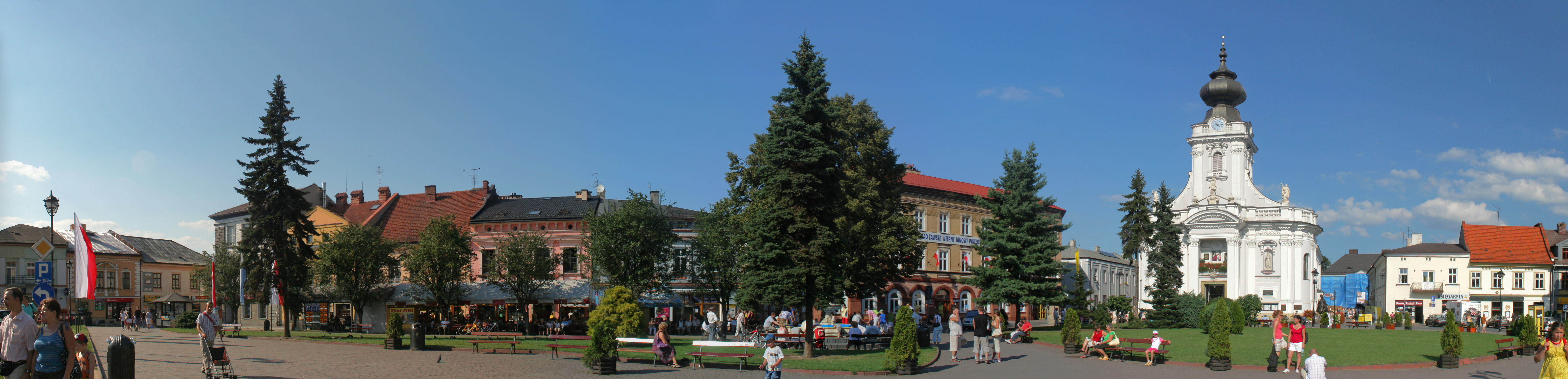 John Paul II Square in Wadowice.